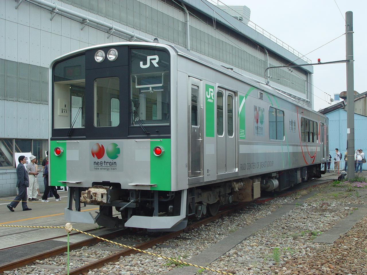 Experimental "NE Train" diesel/battery hybrid railcar KiYa E991-1 at Omiya Works Open Day